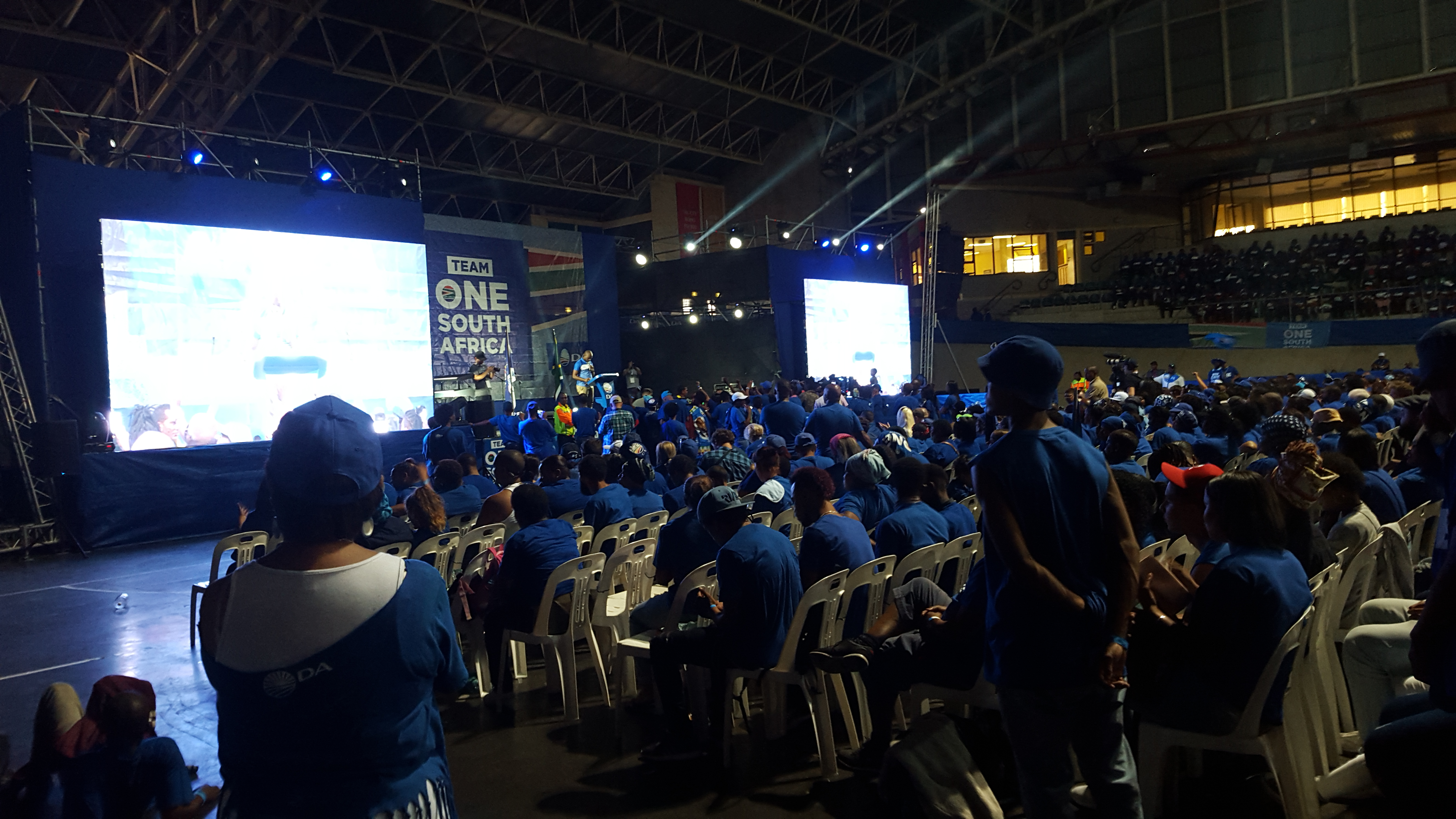 Mmusi Maimande delivering speech at the DA Provincial Manifesto launch